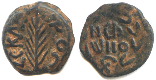 Bronze prutah minted by Antonius Felix .Obverse: Greek letters NEP WNO C (Nero) .Reverse: Greek letters KAICAPOC (Caesar) and date LC (year 3 = 56/57 A.D), palm branch.